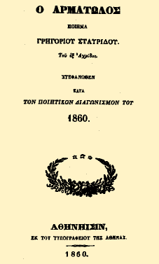 Cover(front side) of book Grigori Stavridi